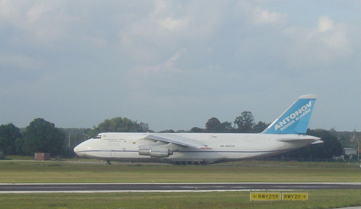 AN-124 in Zaventem, Brussels